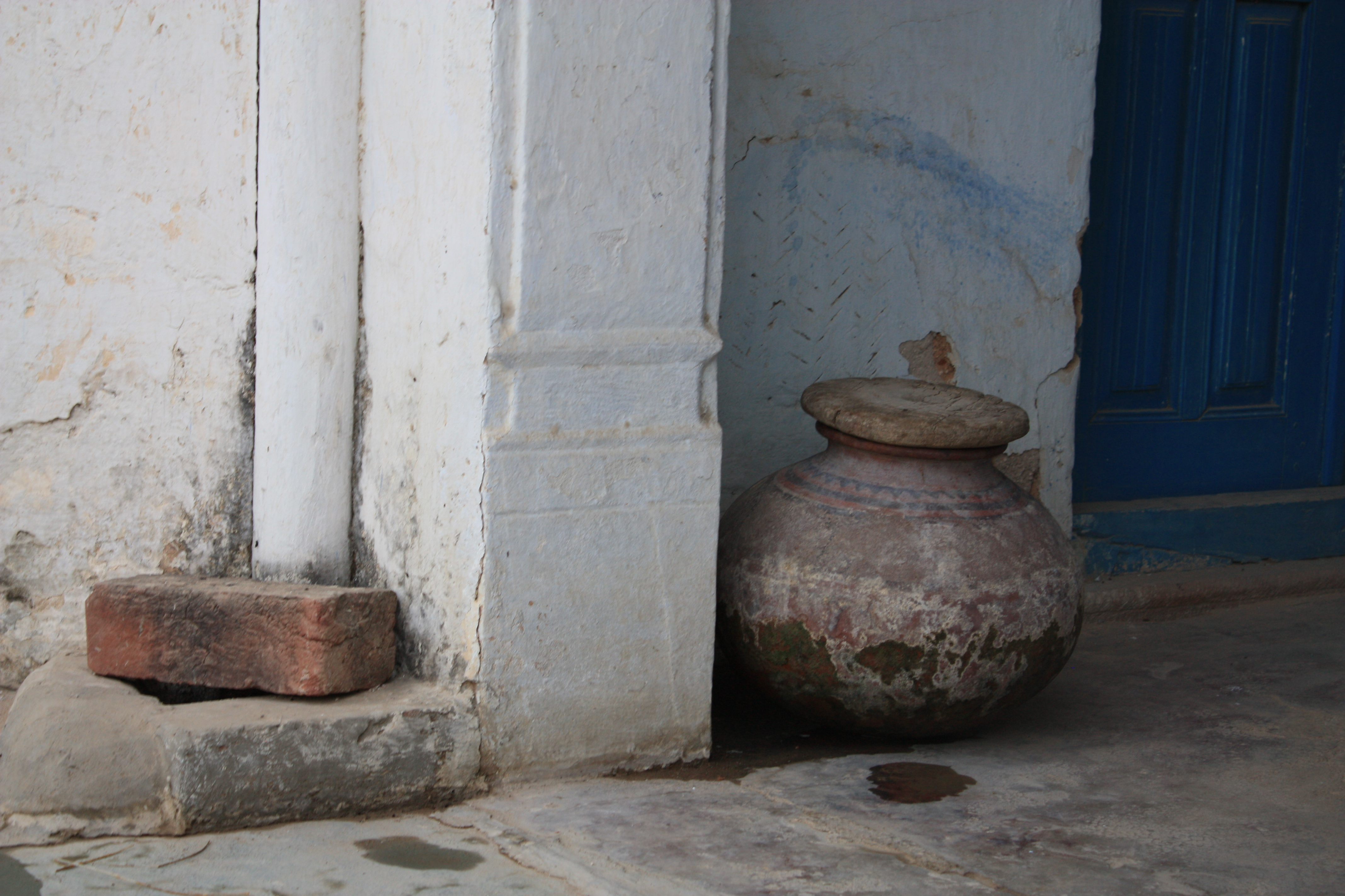 This is the image of the matka (water pot) used in villages to store water and drink from.